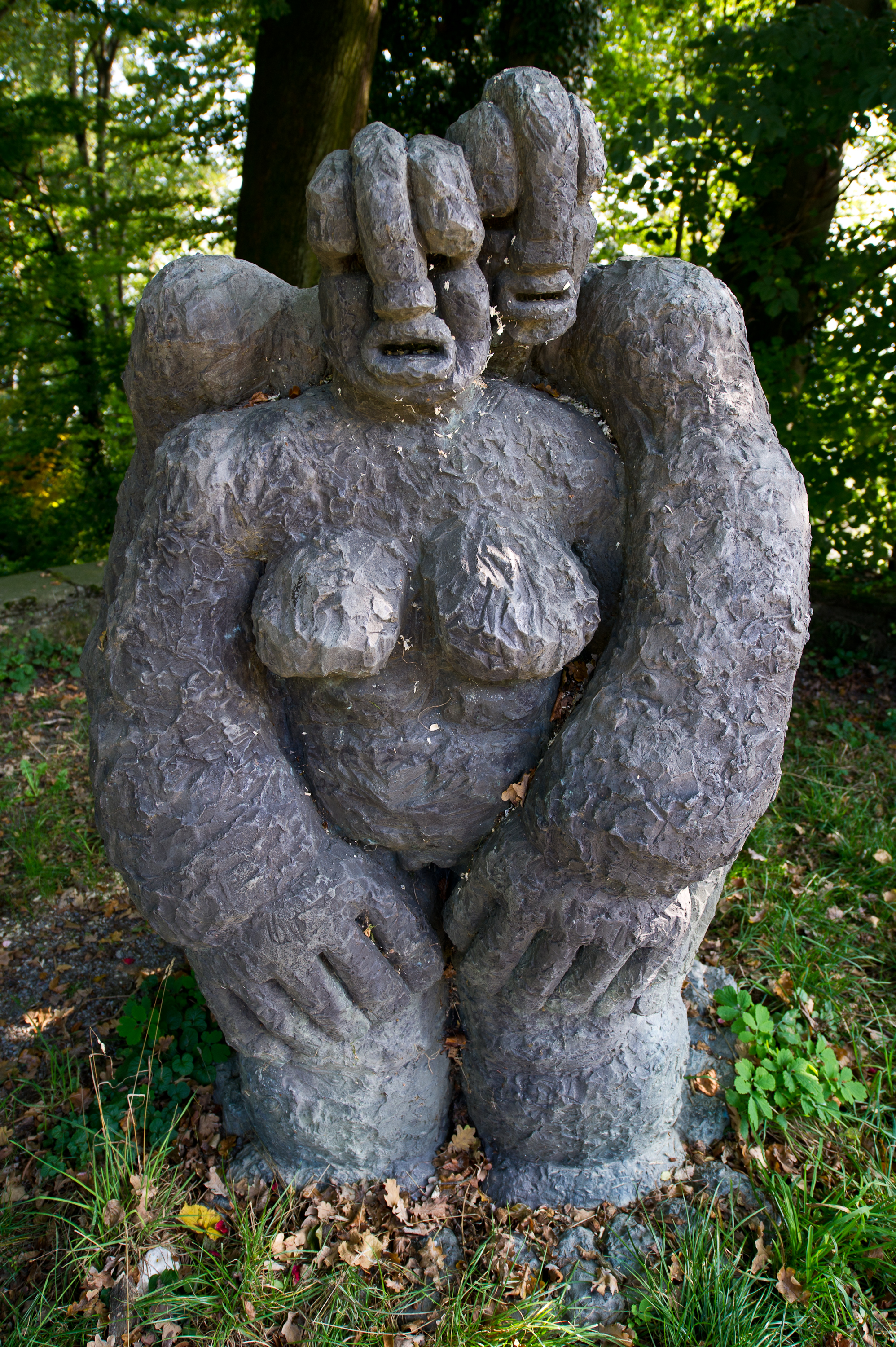 sculpture of Ruedi Blättler in the Dreilindenpark, Lucerne, LU, Switzerland.